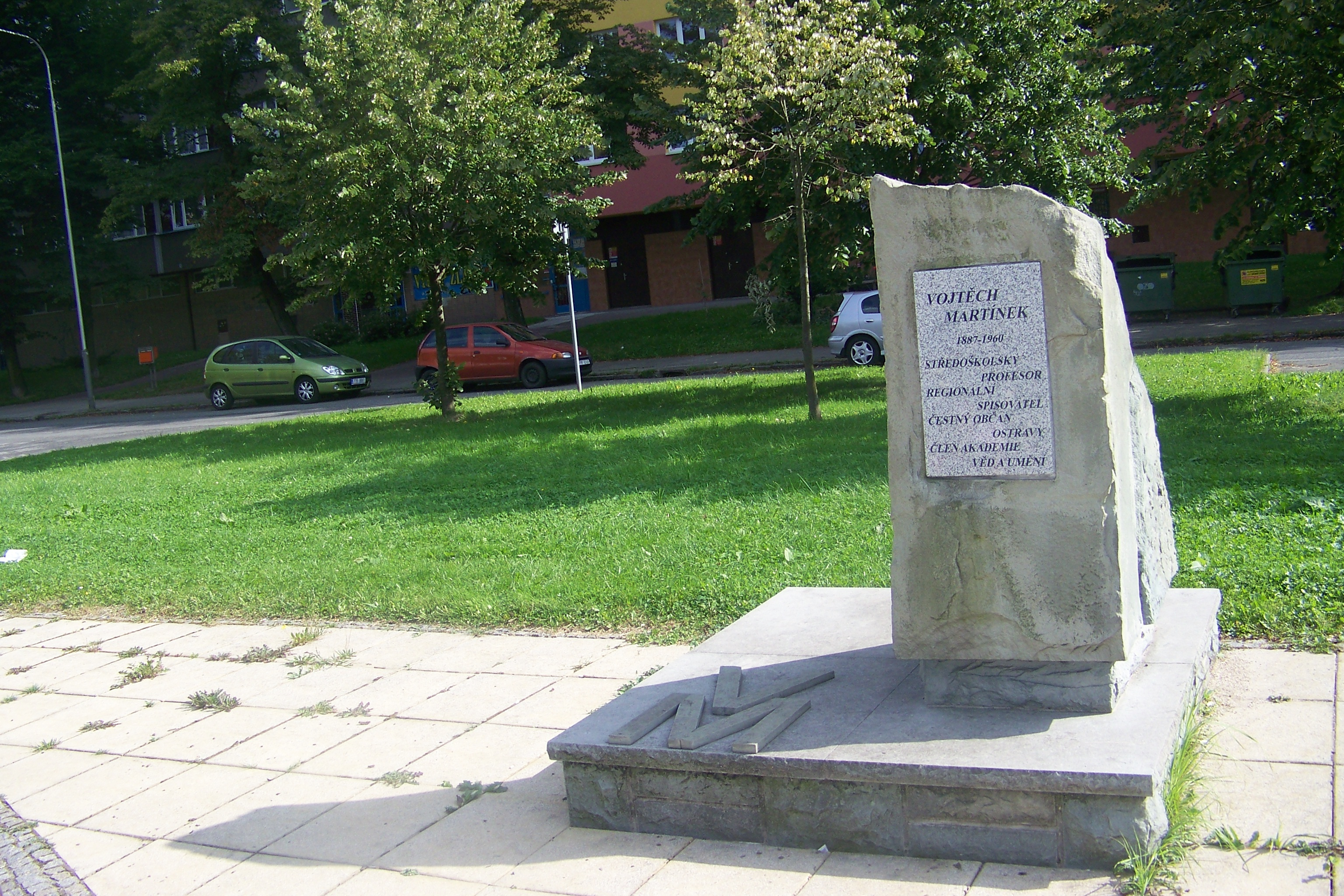 Memorial of Vojtěch Martínek in Ostrava-Hrabůvka.